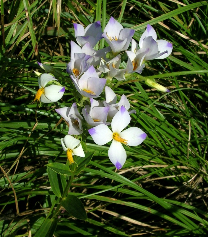 Exacum bicolor, Shola flower from Talakaveri, Coorg, India which is actually a 3-colored flower.